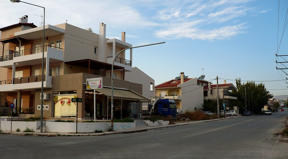 The picture depicts the Agiou Nektariou Avenue at Gerakas.